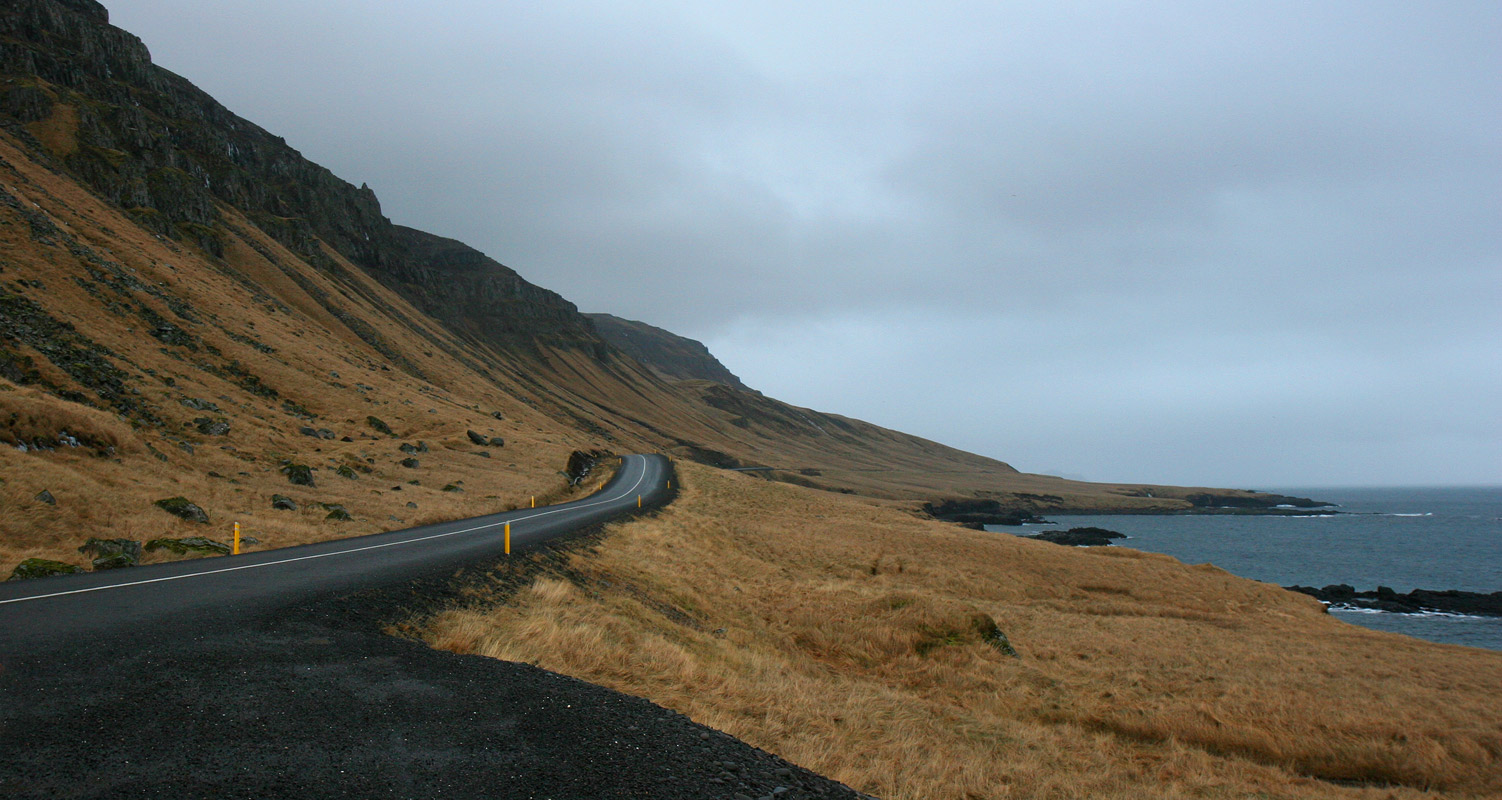 View northeast along the Atlantic coast between Fáskrúðsfjörður and Stoðvarfjörður, November 23 12:33 Iceland, November 2007 Photo by me user:debivort (or friend, with permission given to freely license photo).